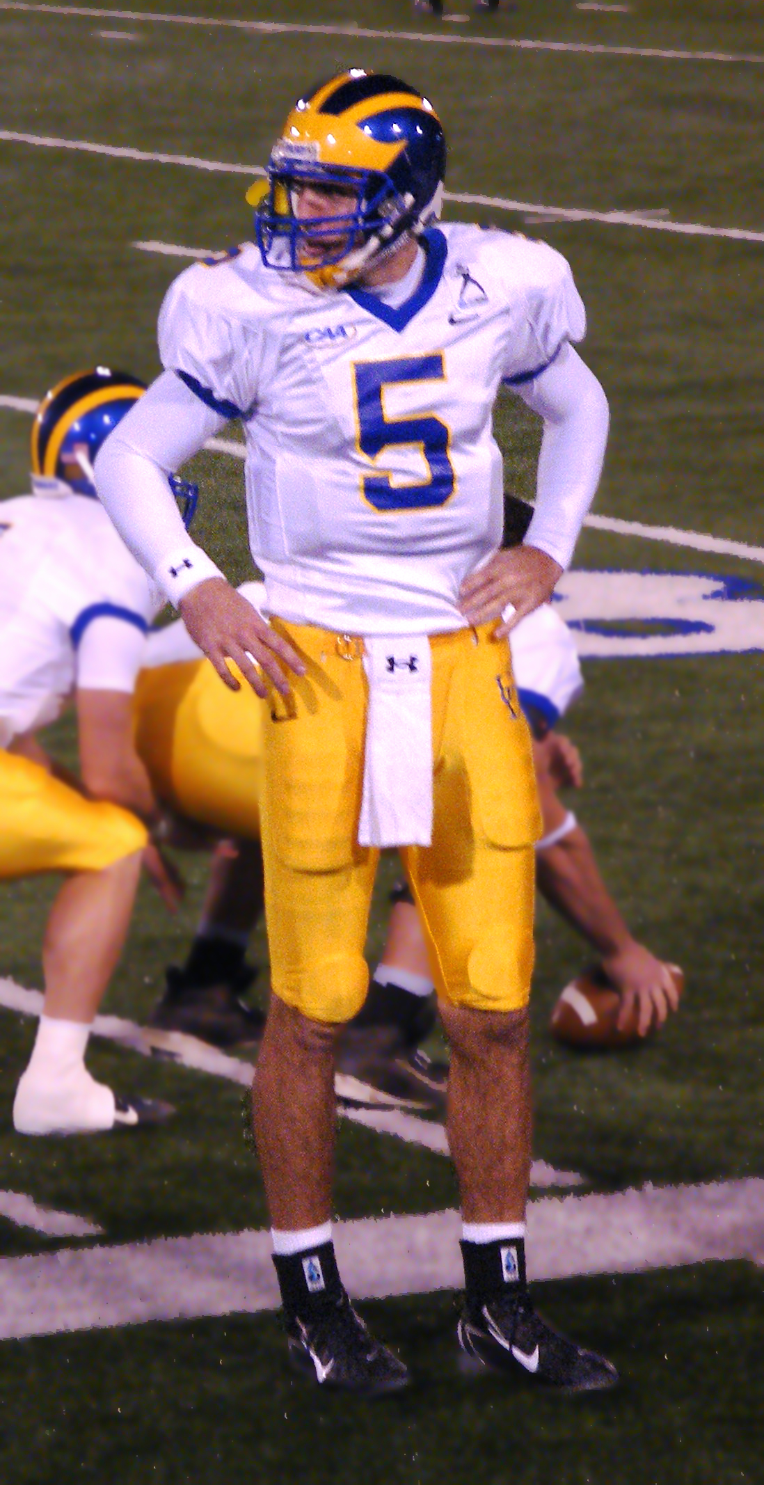 Cropped from 120px Photographer: Dan LayoPlace/Date: 2007 FCS championship game, Chattanooga, TN, December 14, 2007